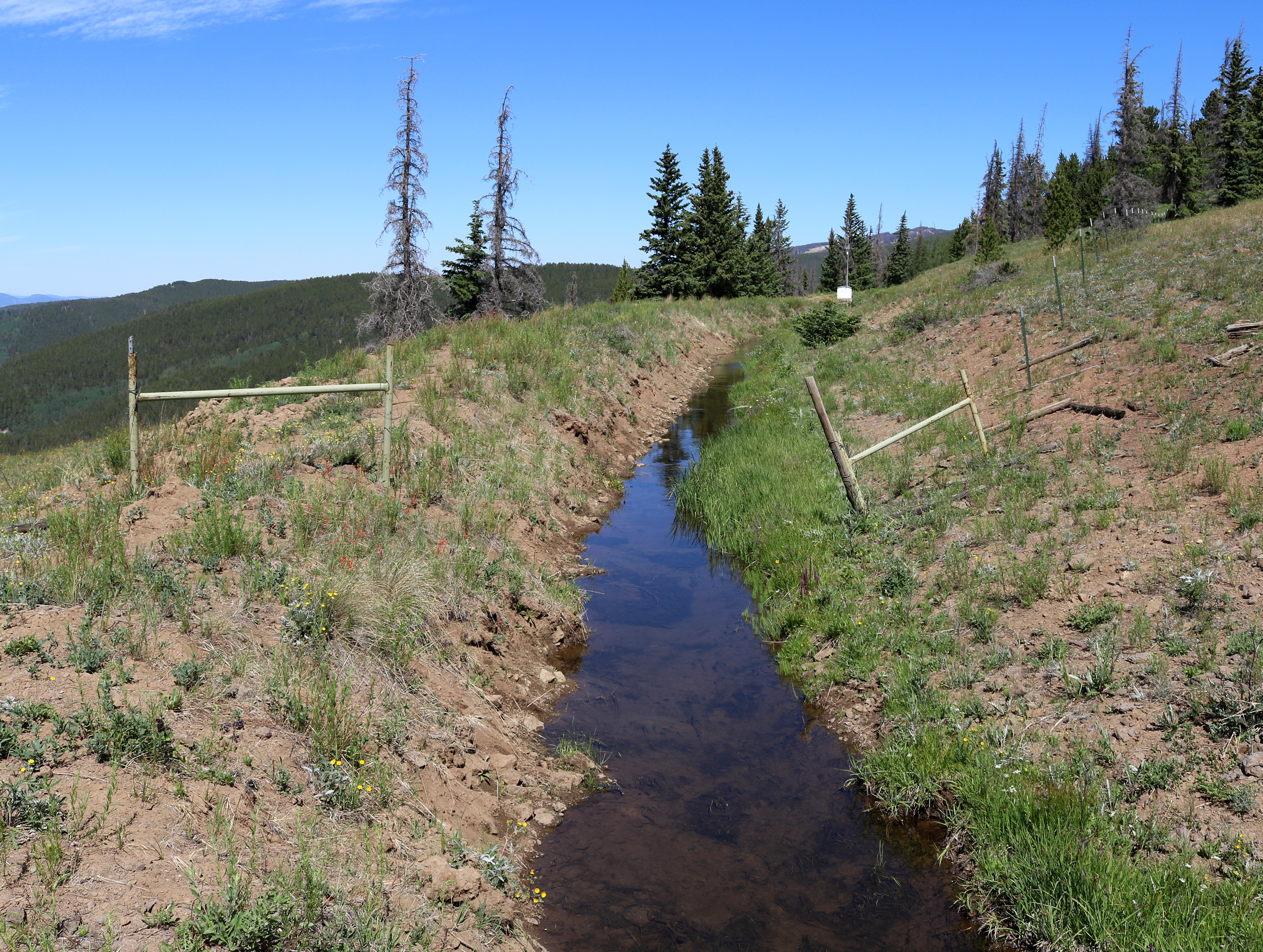 The Larkspur Ditch at Marshall Pass. The ditch brings water from the Colorado River watershed to the Mississippi River watershed through a ditch that crosses Marshall Pass. The ditch is mostly owned by the Lower Arkansas Valley Water Conservancy District.